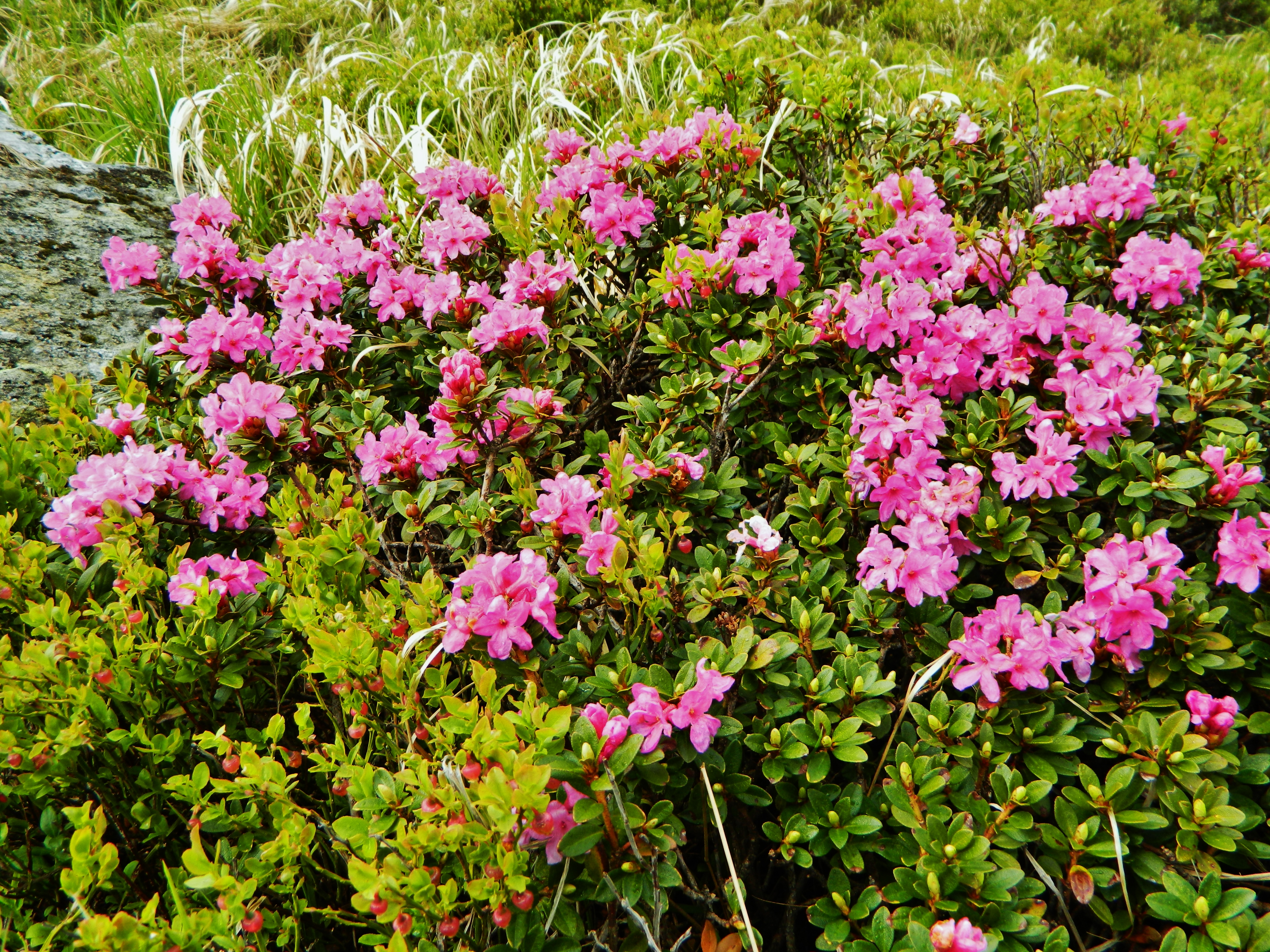 Rhododendron myrtifolium on Chornohora range, Turkul mountain, Ukrainian Carpathians